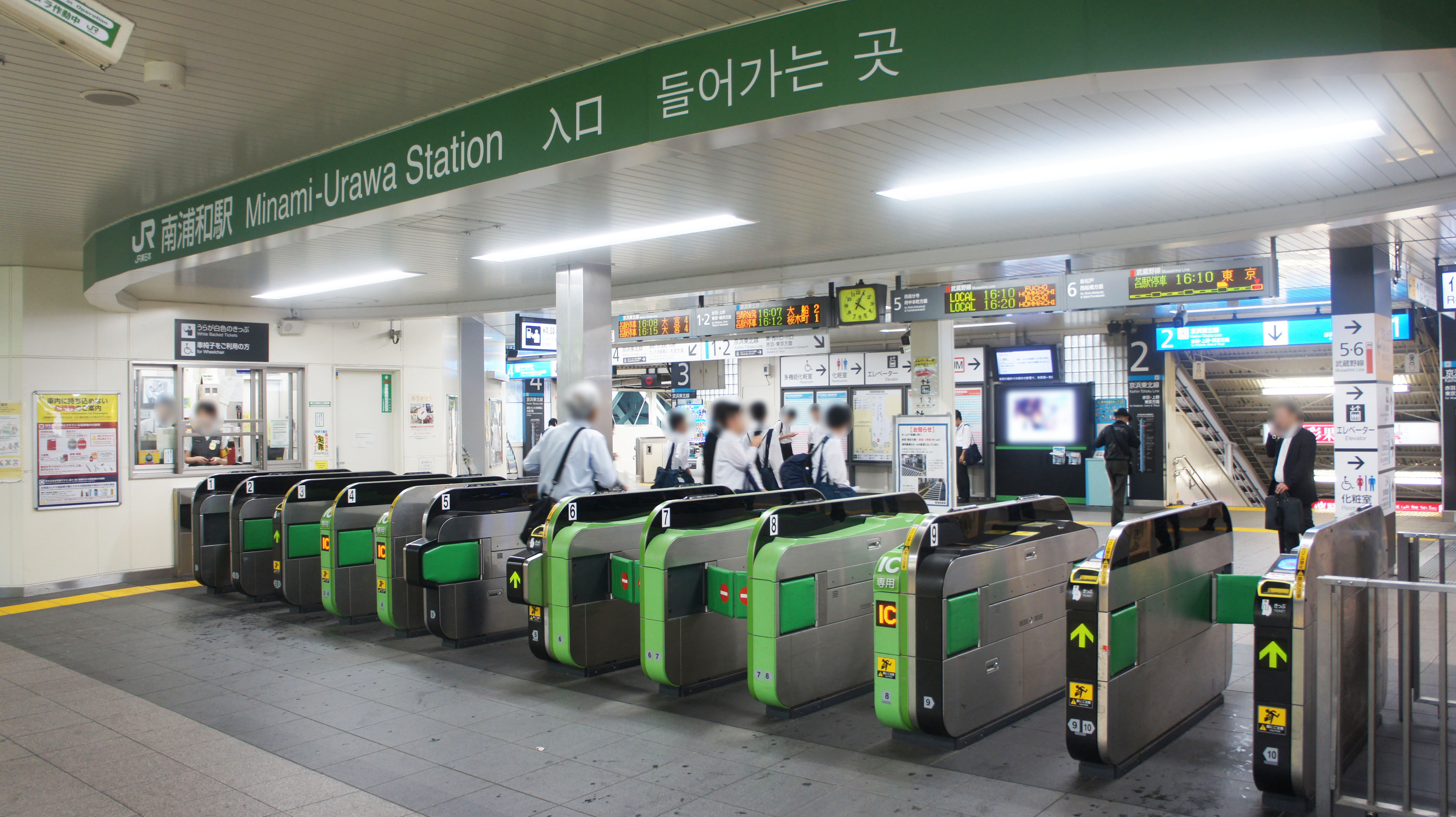 Gates of JR Minami-Urawa Station Sony NEX-3 + E 18-55mm F3.5-5.6 OSS